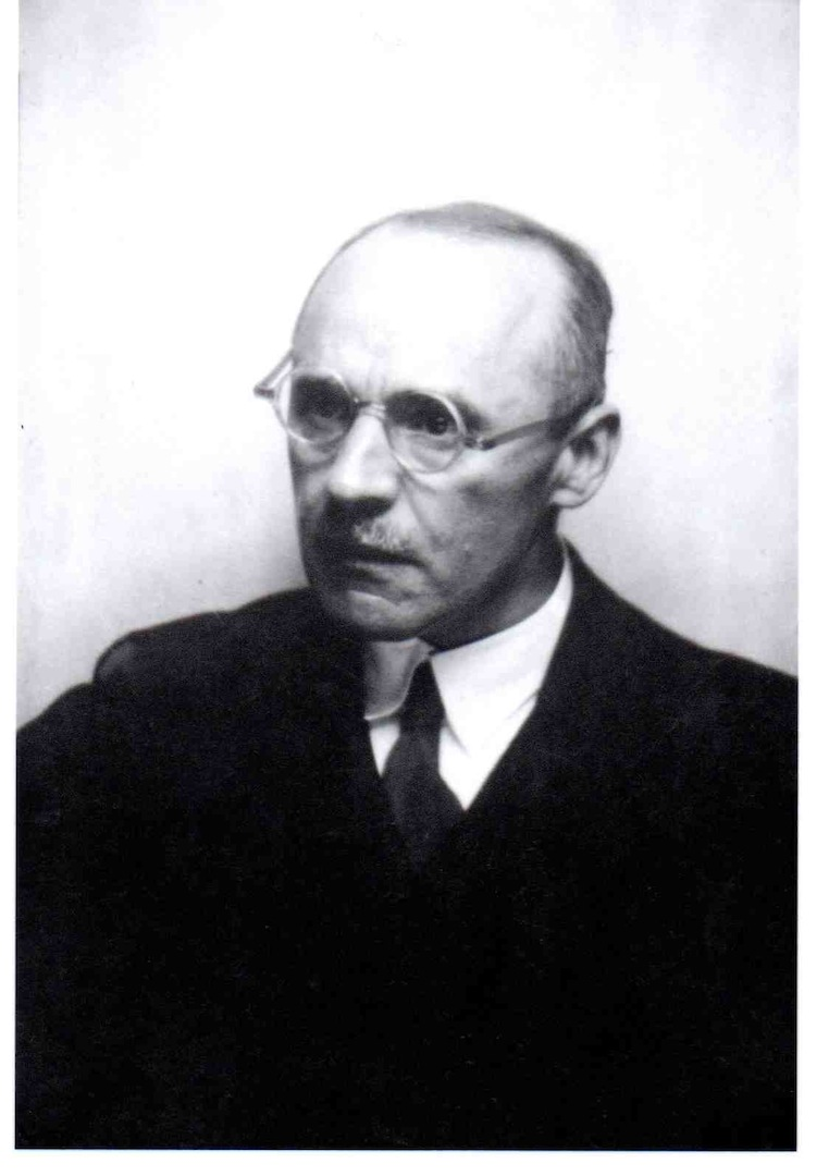 Joseph Malègue about 1933